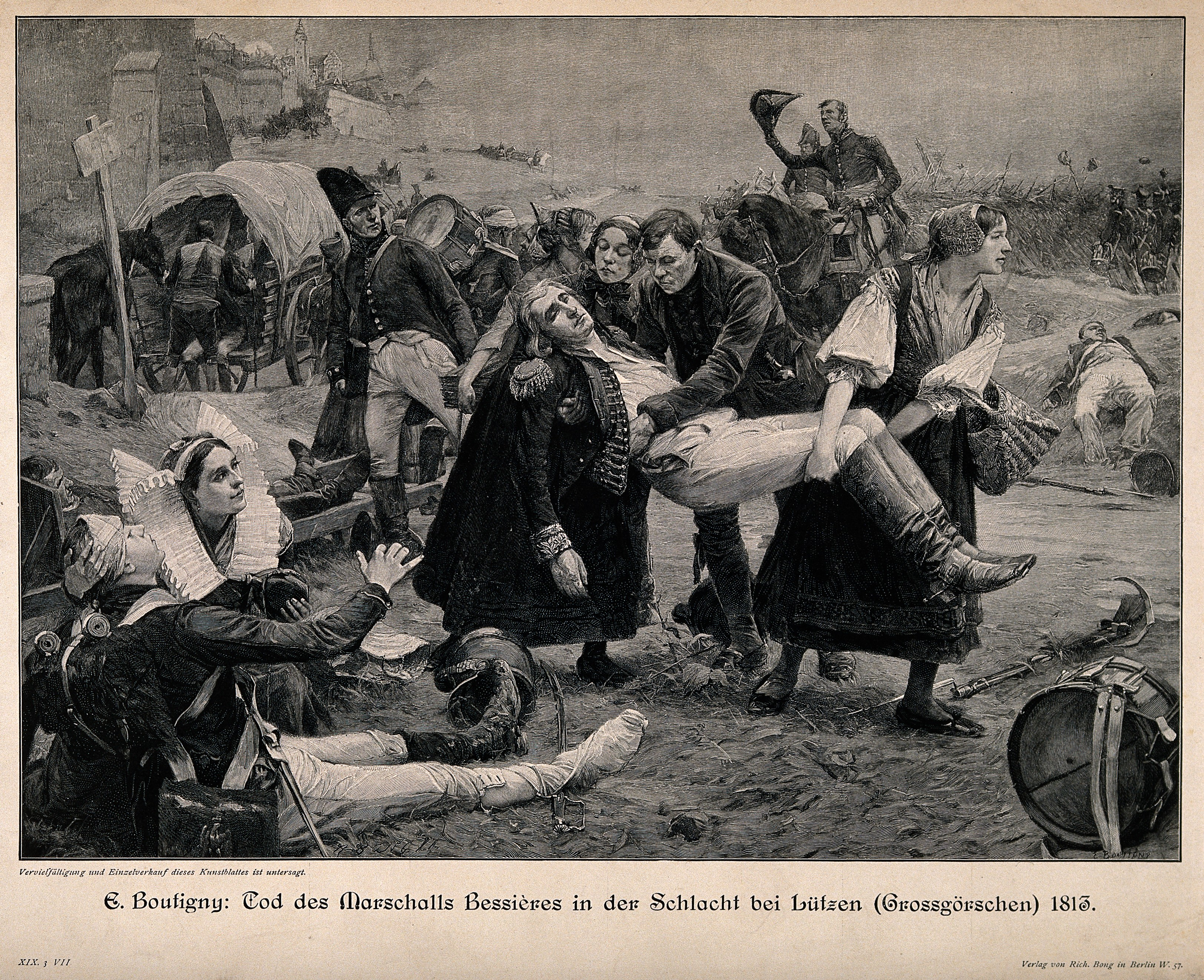 French Military Hospital at Marienburg. Etching by F. Schroerder, 1807, after A.E.G. Roehn after Loeilott. Iconographic Collections Keywords: Loeillot; Adolphe Roehn; Hospitals; INSTITUTIONS; Friedrich Schroerder